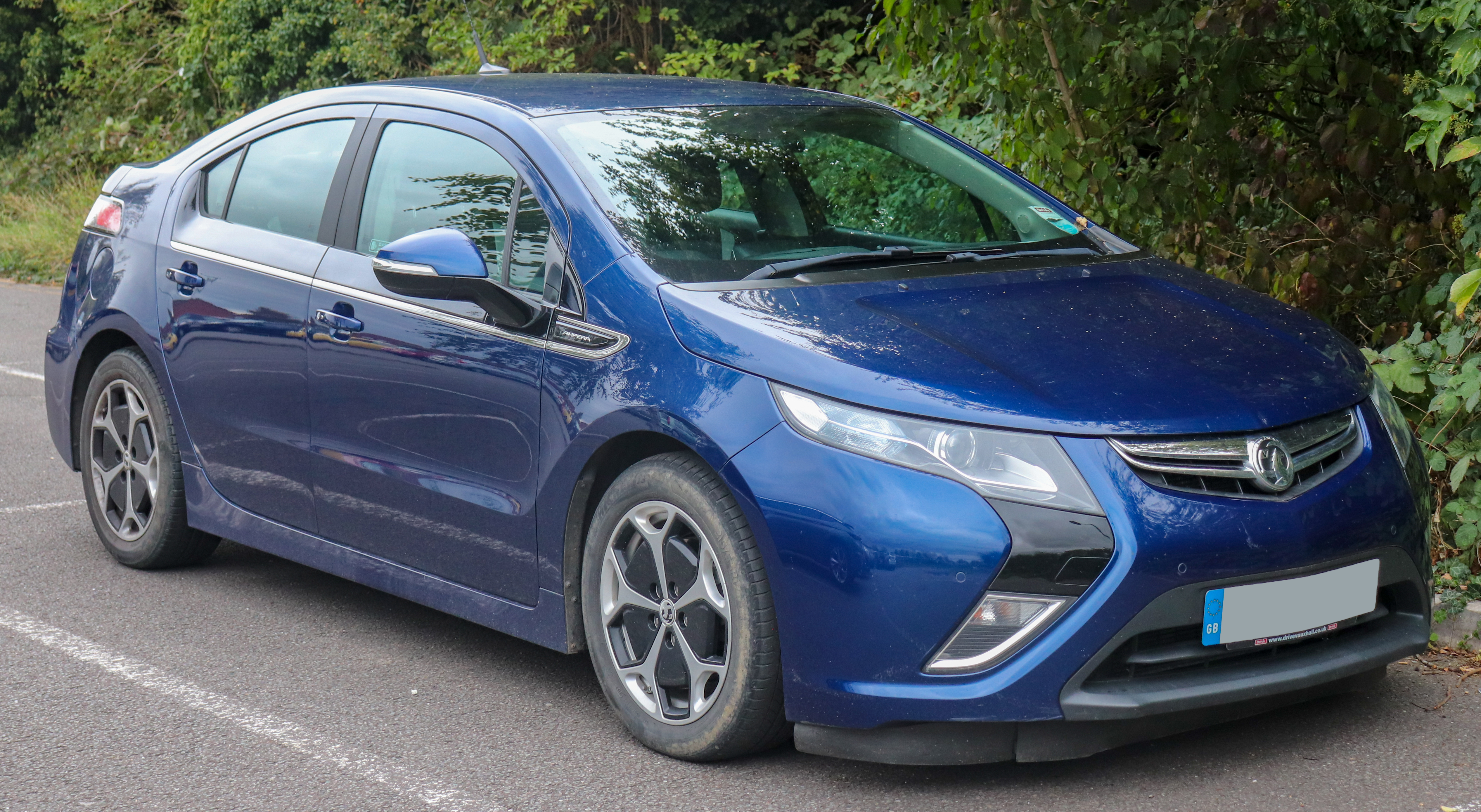 2014 Vauxhall Ampera Positiv CVT 1.4 Front Taken in Warwick